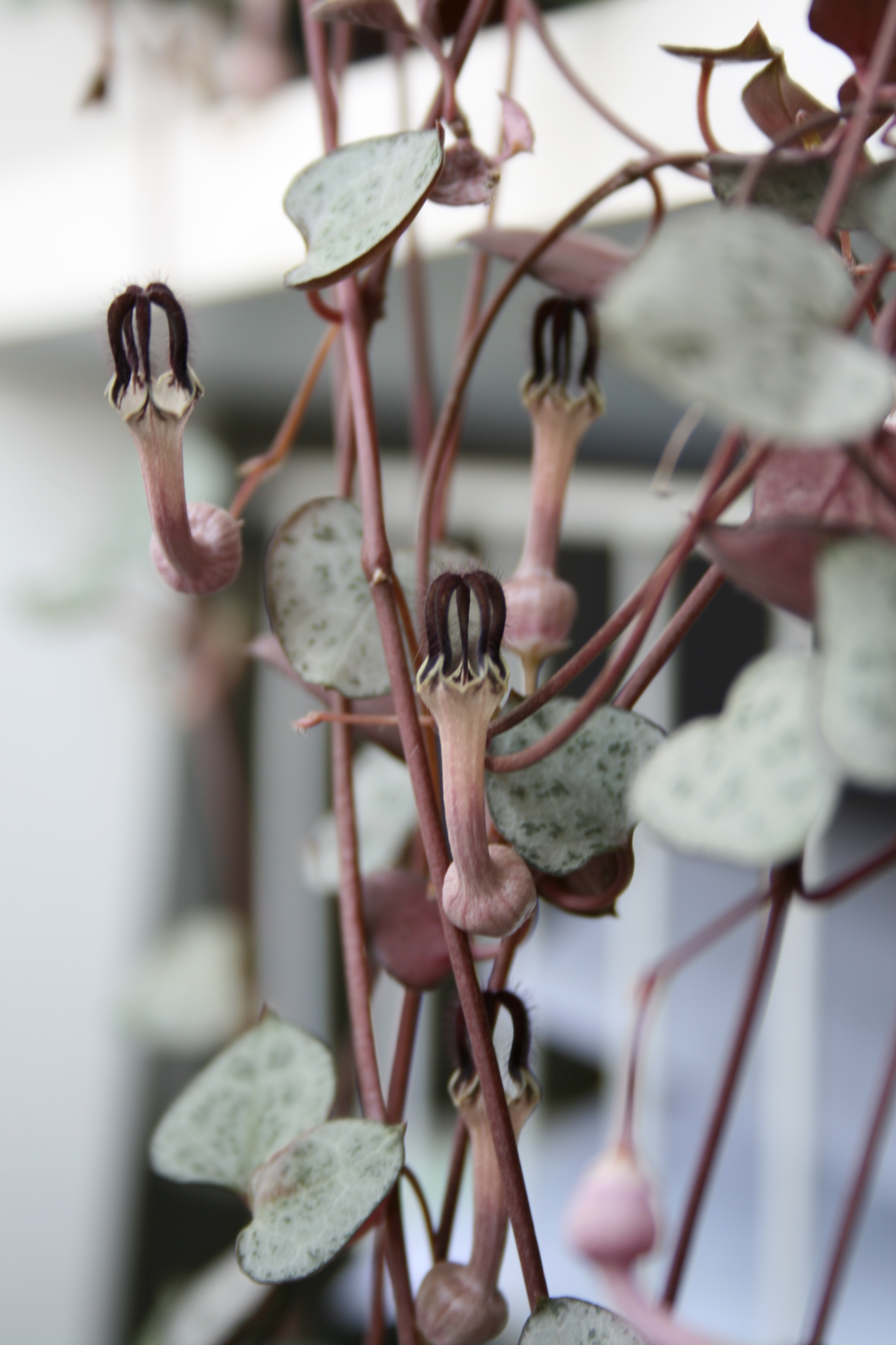 Ceropegia woodii : flowers and leaves